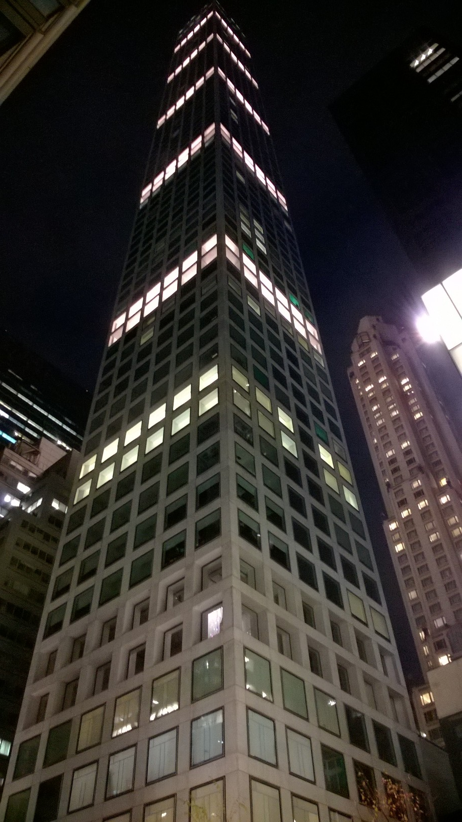 Lighting scheme of 432 Park Avenue with its mechanical floors highlighted.